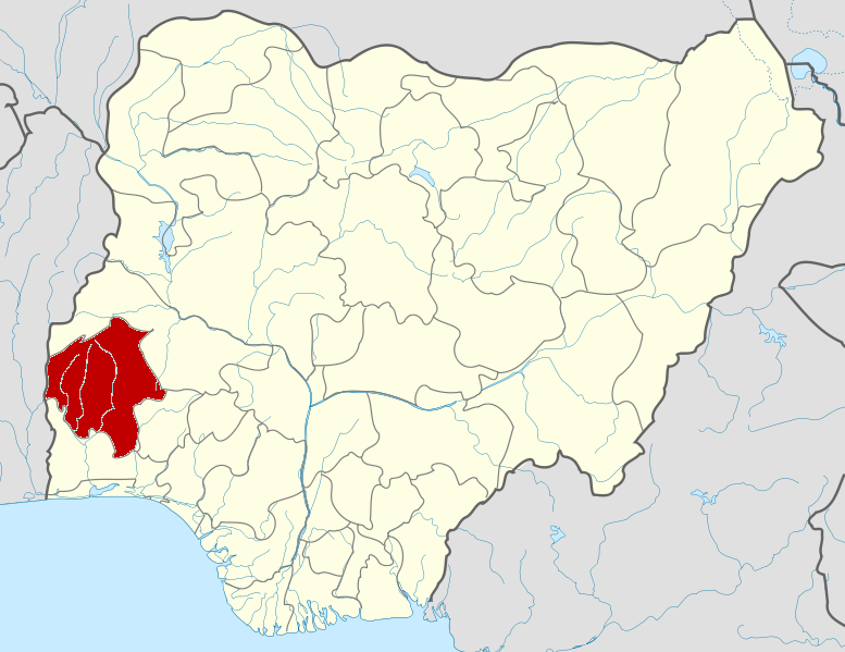 Map locator of Nigeria.